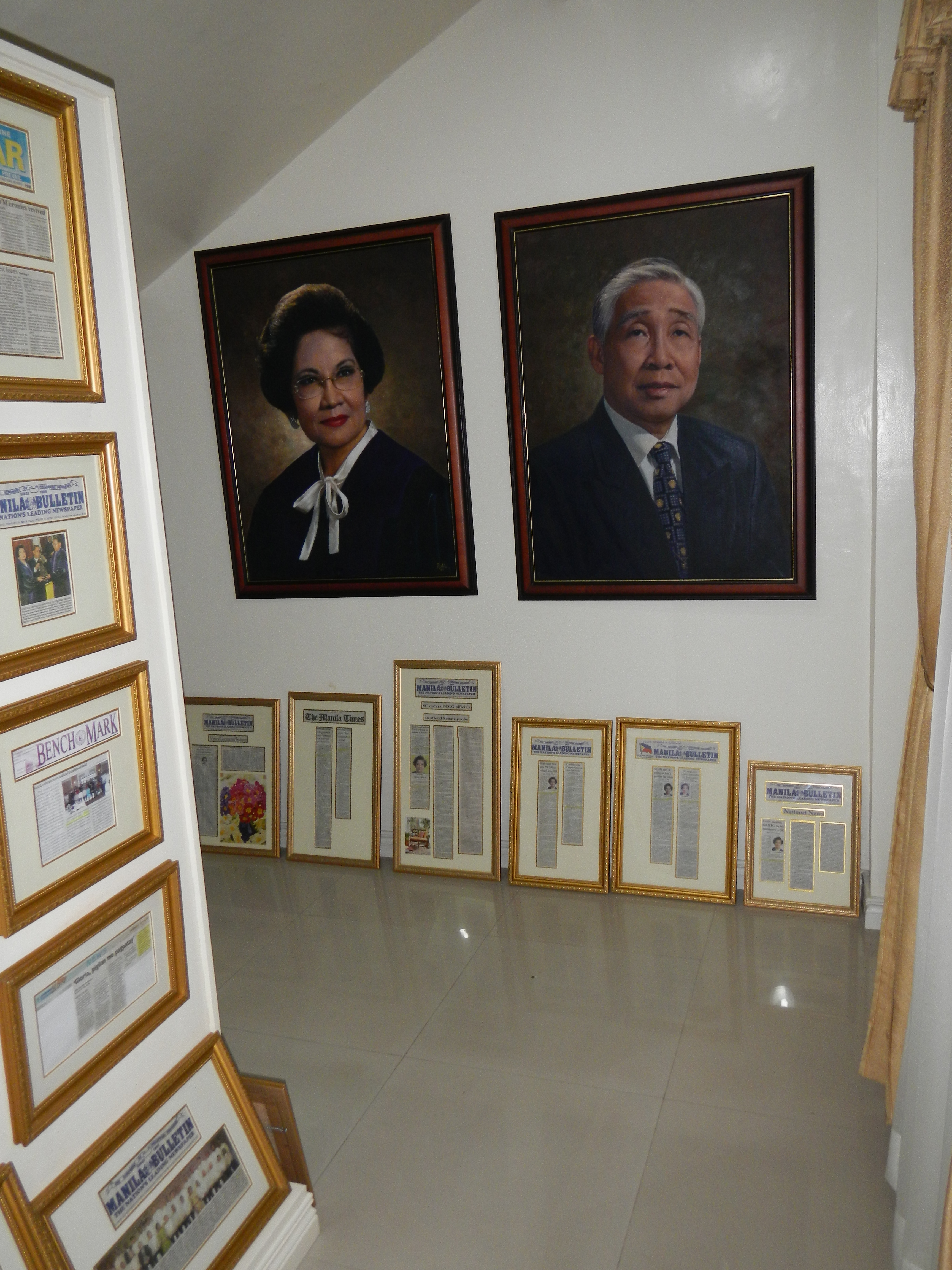 Angelina Sandoval-Gutierrez[1] Ancestral House, Museum and Memorabilia (born February 28, 1938) is a Filipino jurist who served as an Associate Justice [2] of the Supreme Court of the Philippines[3] from 2000 to 2008. She was the last appointment to the Court made by President Joseph Estrada. Concepcion, Alitagtag, Batangas[4]